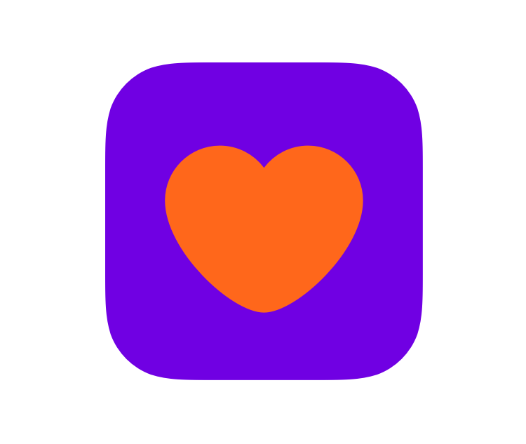 APP ICON FOR WIKI Transparent Background